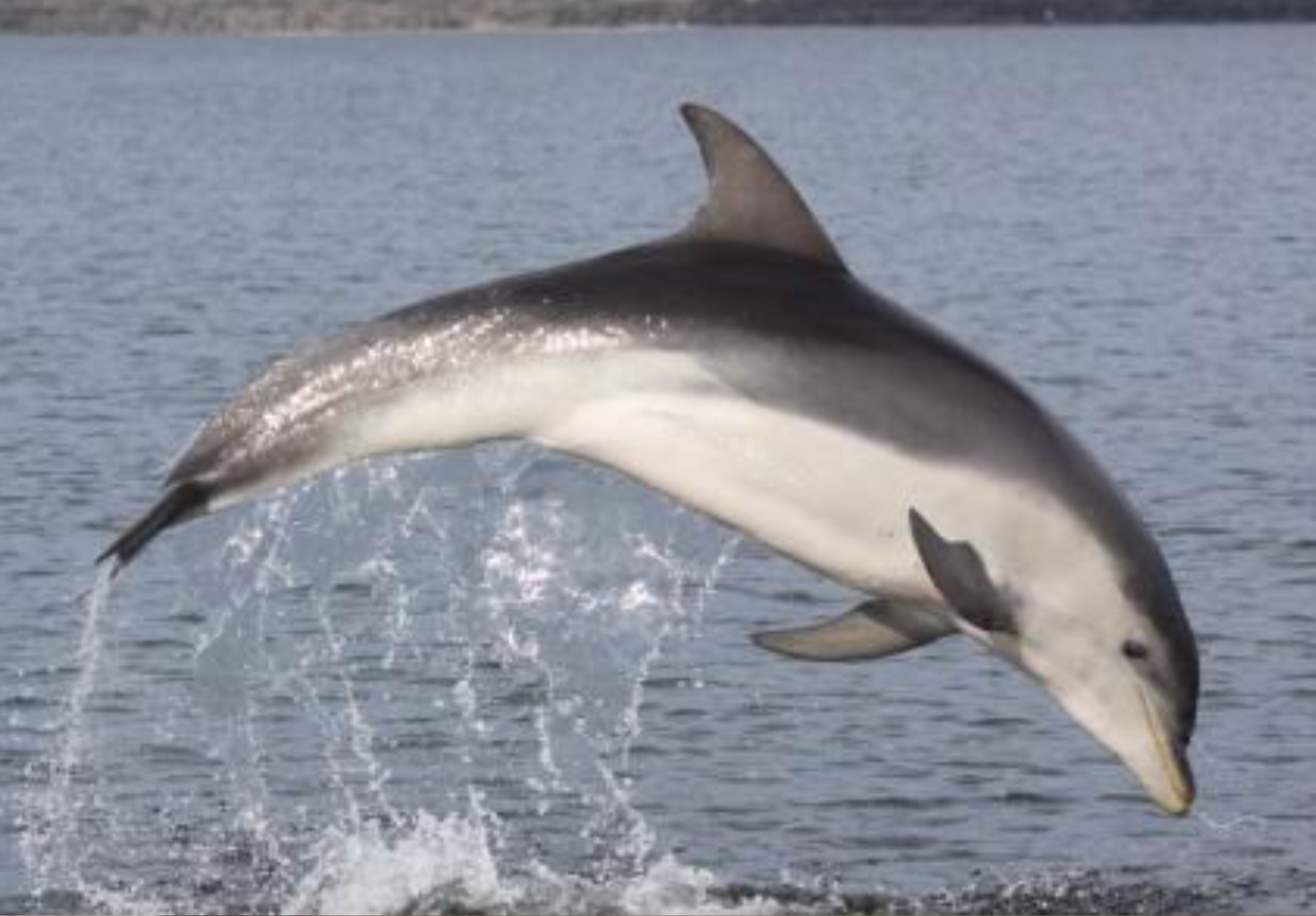 Tursiops australis sp. nov. external morphology and colouration. Distinct tri-colouration, extension of ventrum white above eye, dorsal blaze, ‘stubby’ rostrum and falcate dorsal fin.